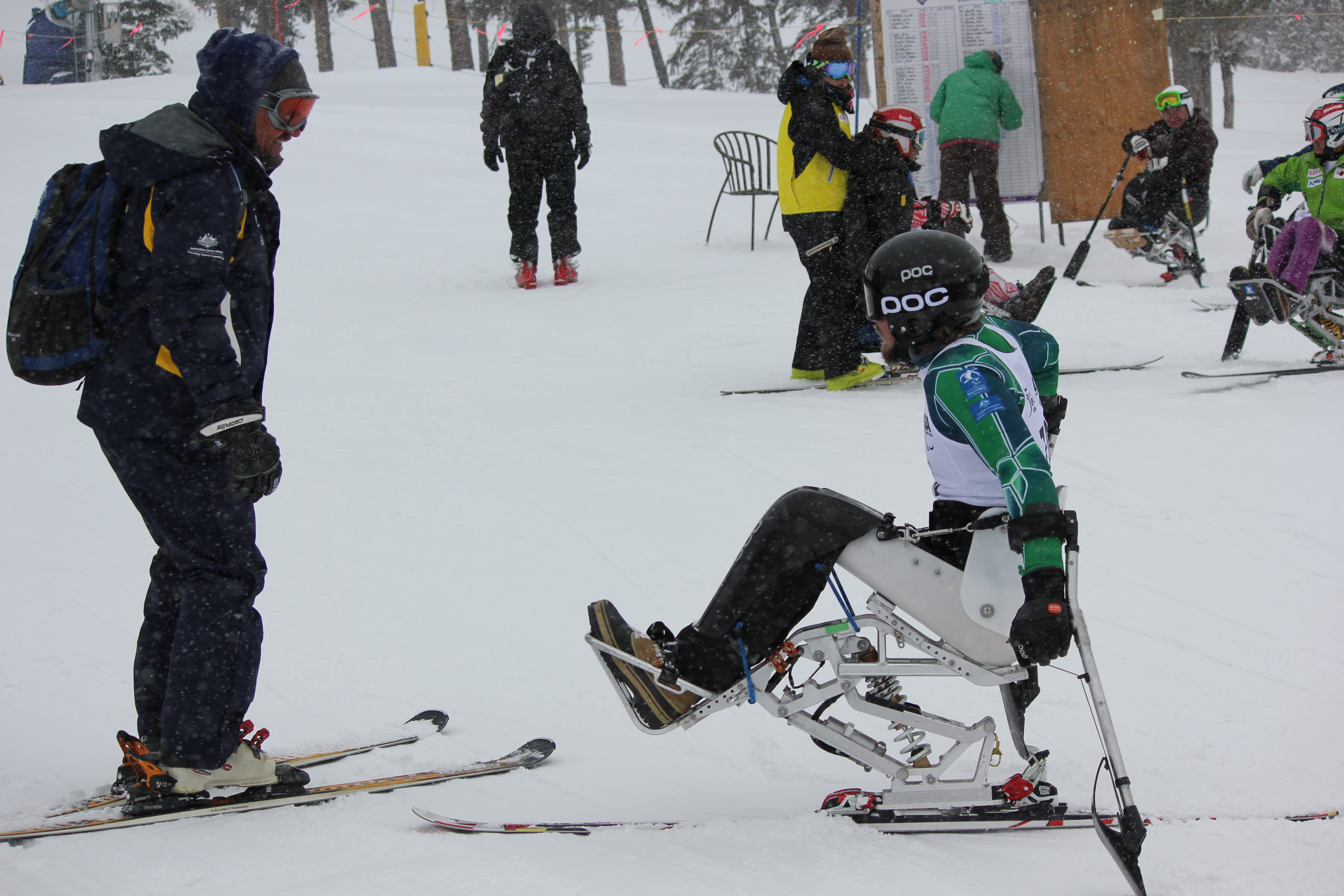 10 December 2012 Australian para-alpione skier at IPC Nor-Am Cup in the Super G.